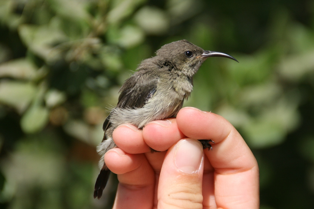 Palestine sunbird (Cinnyris osea), female